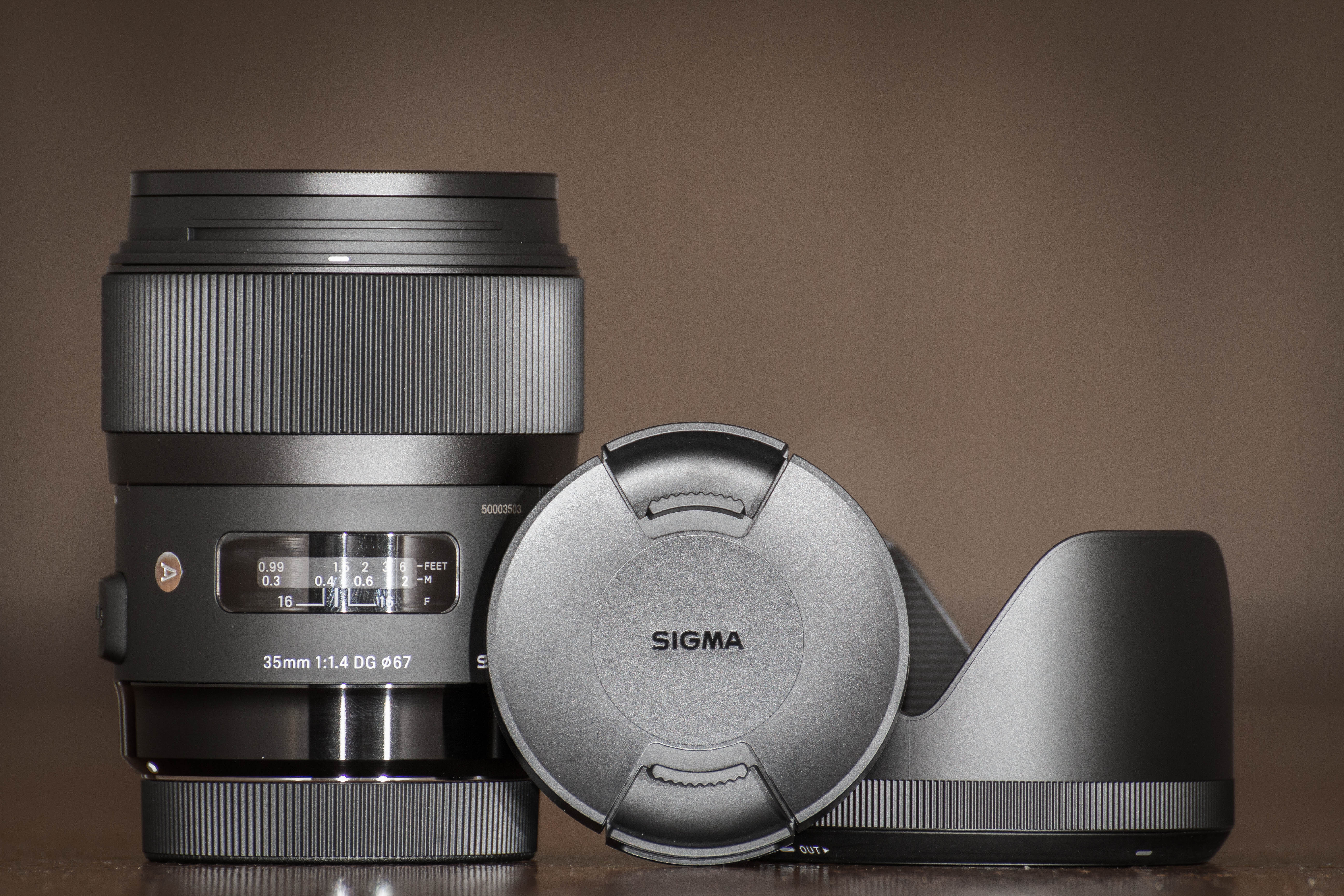 Sigma 35mm F1.4 DG HSM lens.